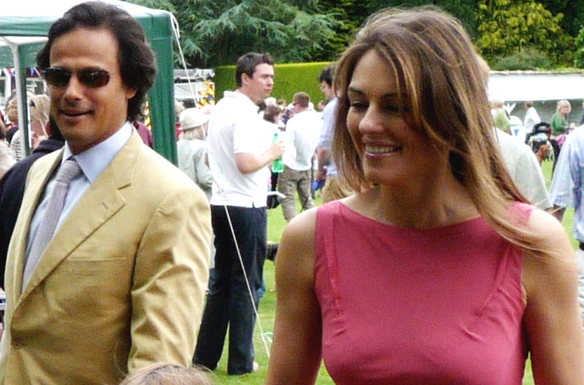 Model Elizabeth Hurley at the annual Ampney Crucis Village Fete 2008 with husband. (edited, cropped from Image:Elizabeth Hurley andNayar.jpg)